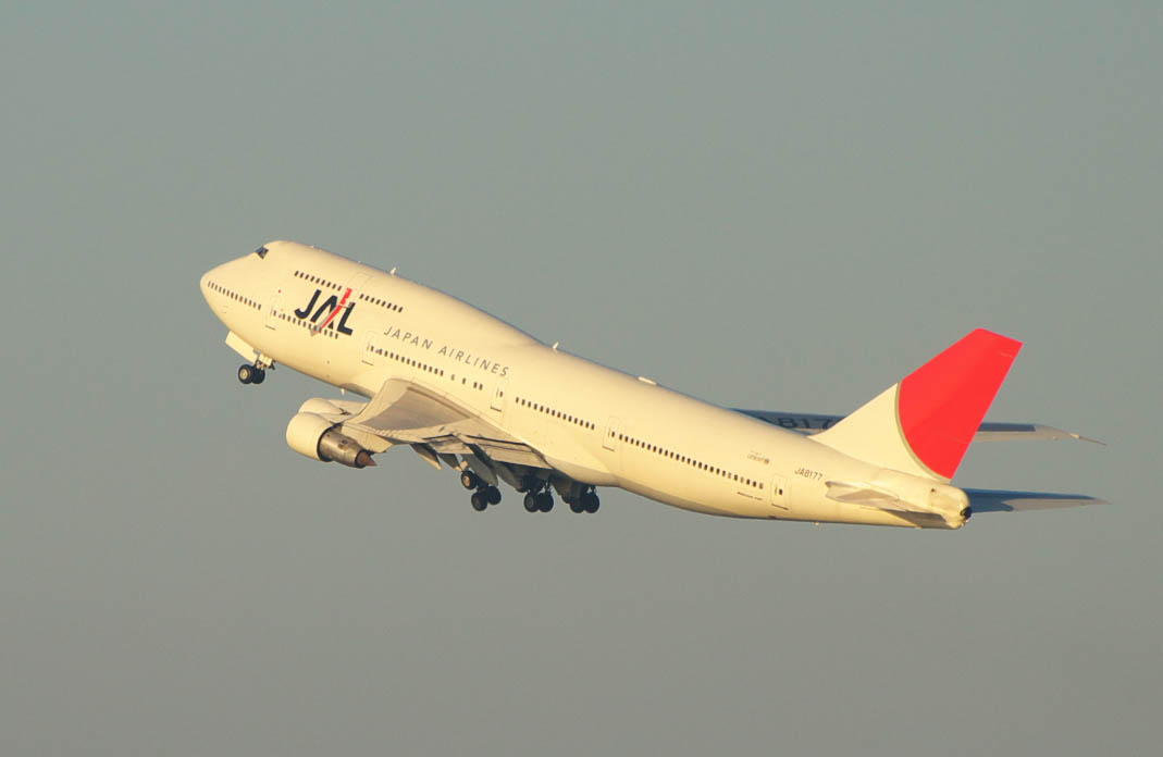 JAL B747-346(JA8177) Haneda airport (HND/RJTT),Japan C???(34R)??????JAL?????????????????????????????